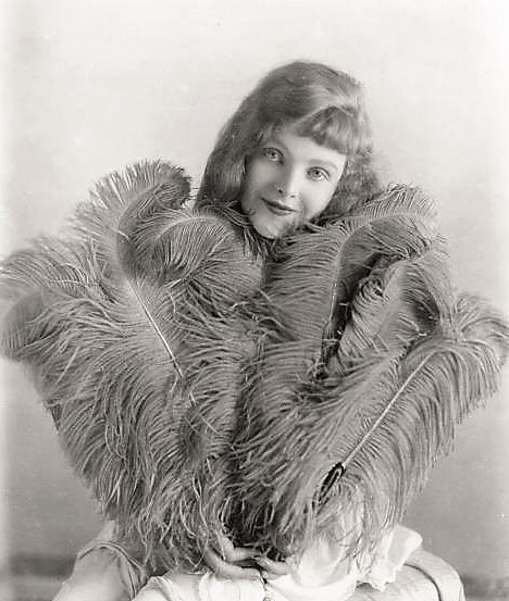 Joan Barry